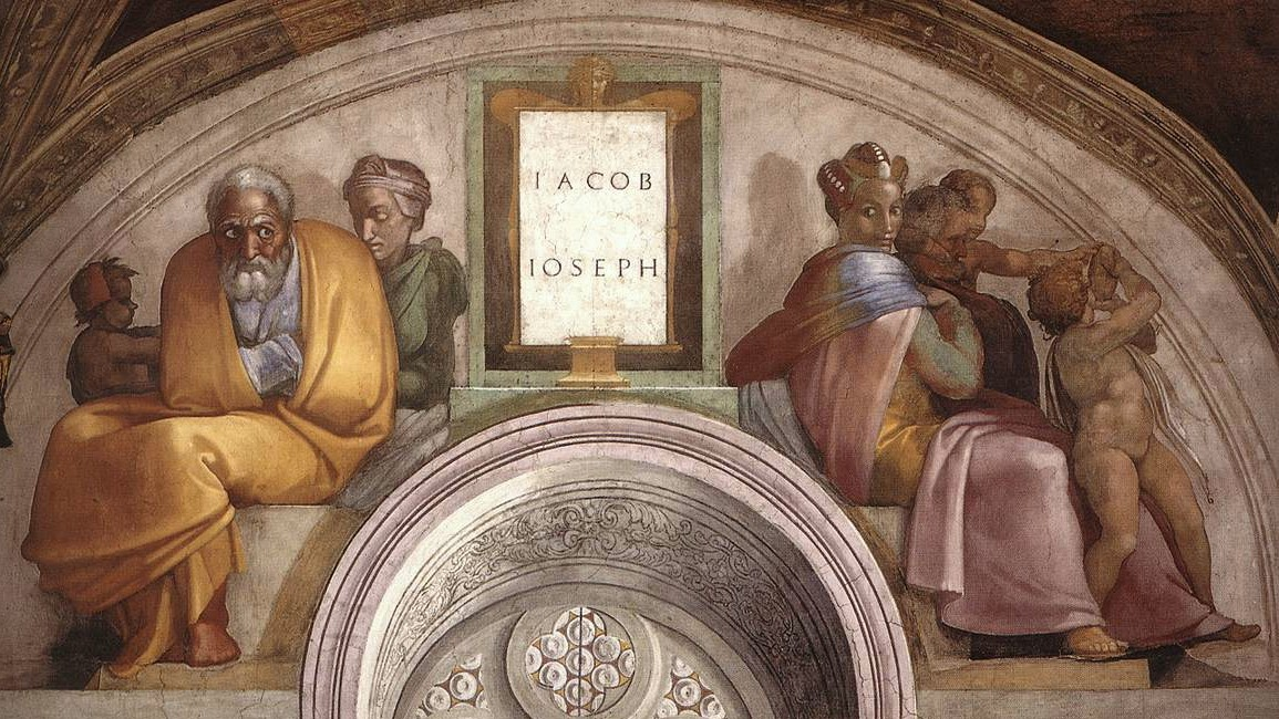 Sistine Chapel, fresco Michelangelo, one of Ancestors of Christ series. NOTE: This is not Joseph who ruled Egypt, or Jacob son of Isaac. This is the Joseph that was the Earthly father of Jesus, the last in the series of Ancestors.